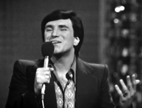 José Cid em 1974